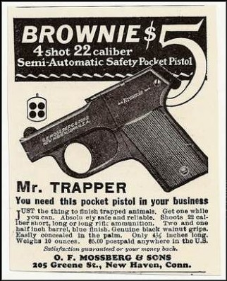 Advertisement for the Mossberg Brownie .22LR pocket pistol (derringer), introduced 1920.